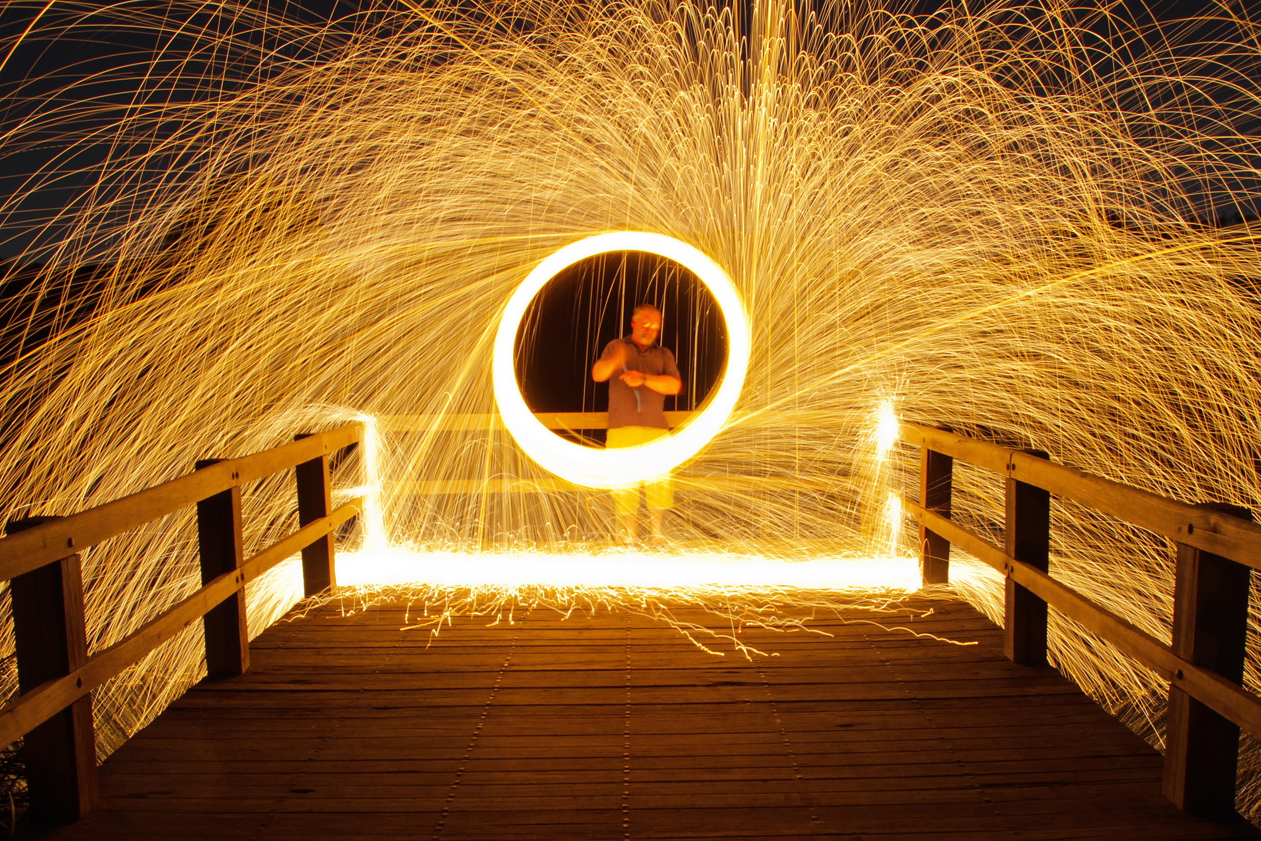 Light Painting, spinning steel wool in Booyeembara Park, Perth, Western Australia, Australia